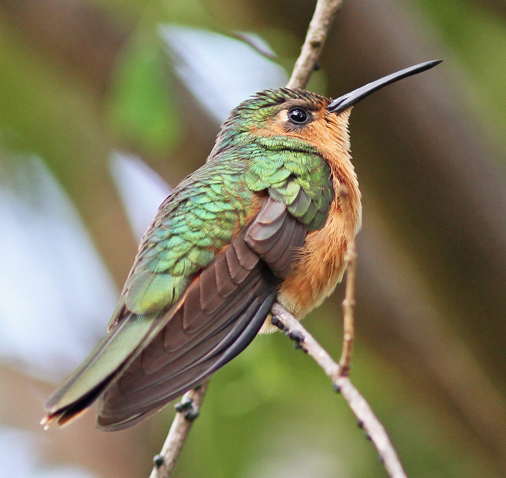 Taken at Lake Atitlan, Guatemala